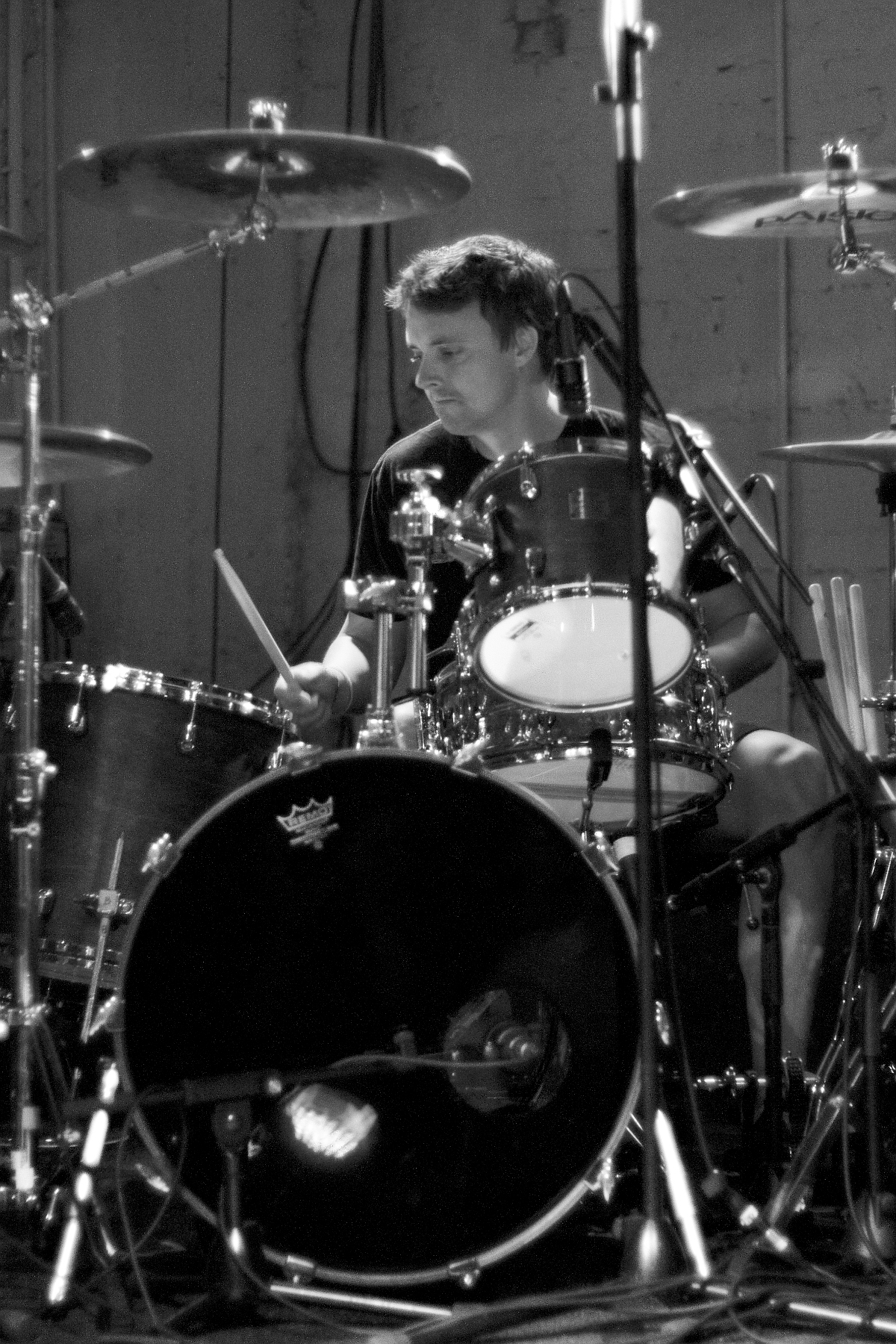 Aaron Harris, drummer of Californian post-metal band Isis, during a concert at Stuttgart venue Wagenhallen on 2009-07-09. View in my concert gallery.